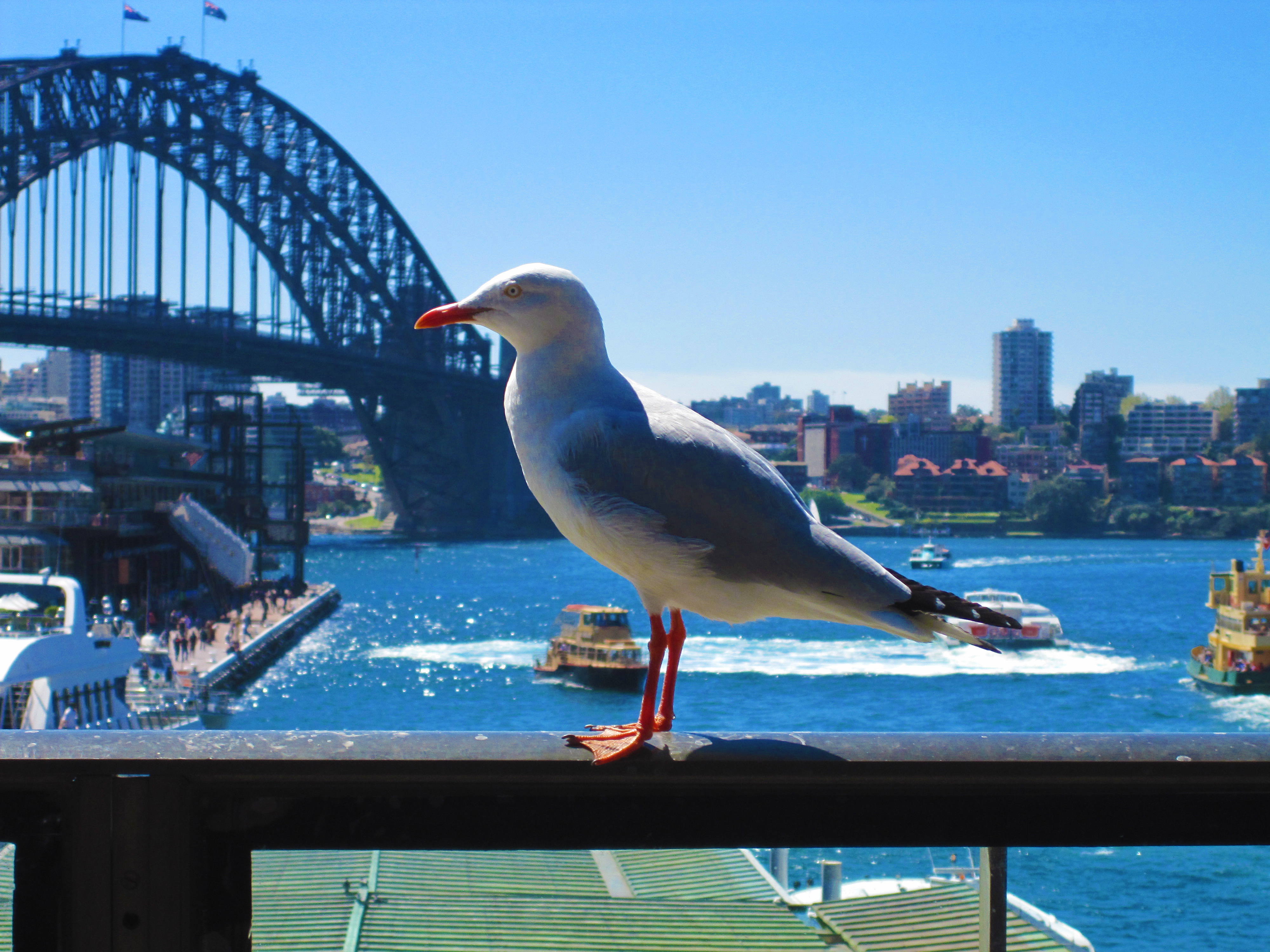 a Silver Gull. took in sydney